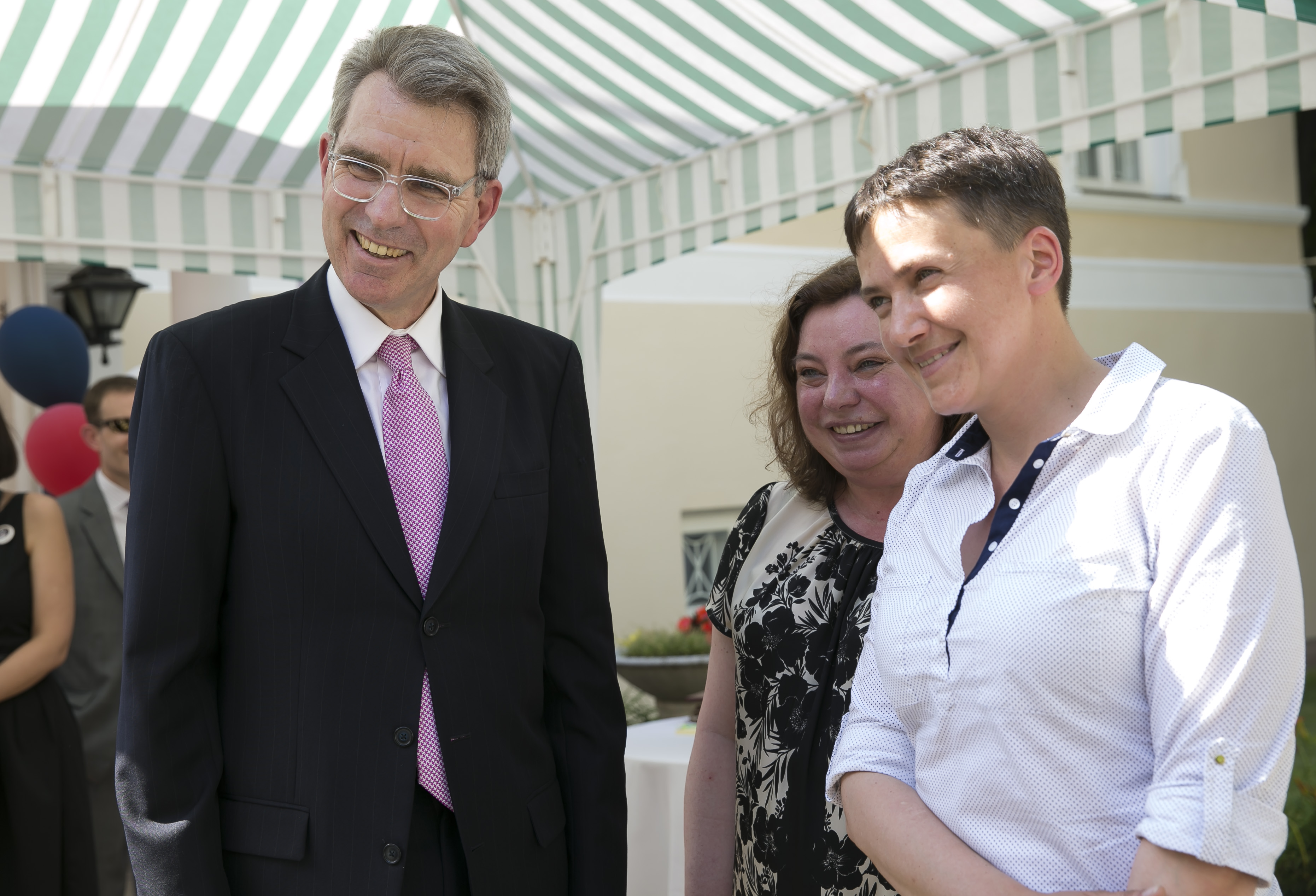 U.S. Independence Day Reception, Kyiv, Ukraine, July 1, 2016